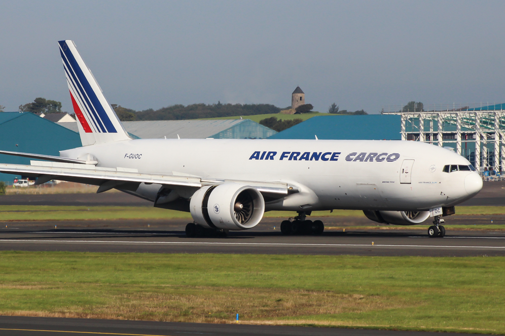 F-GUOC Boeing 777F Air France Cargo at Prestwick Airport